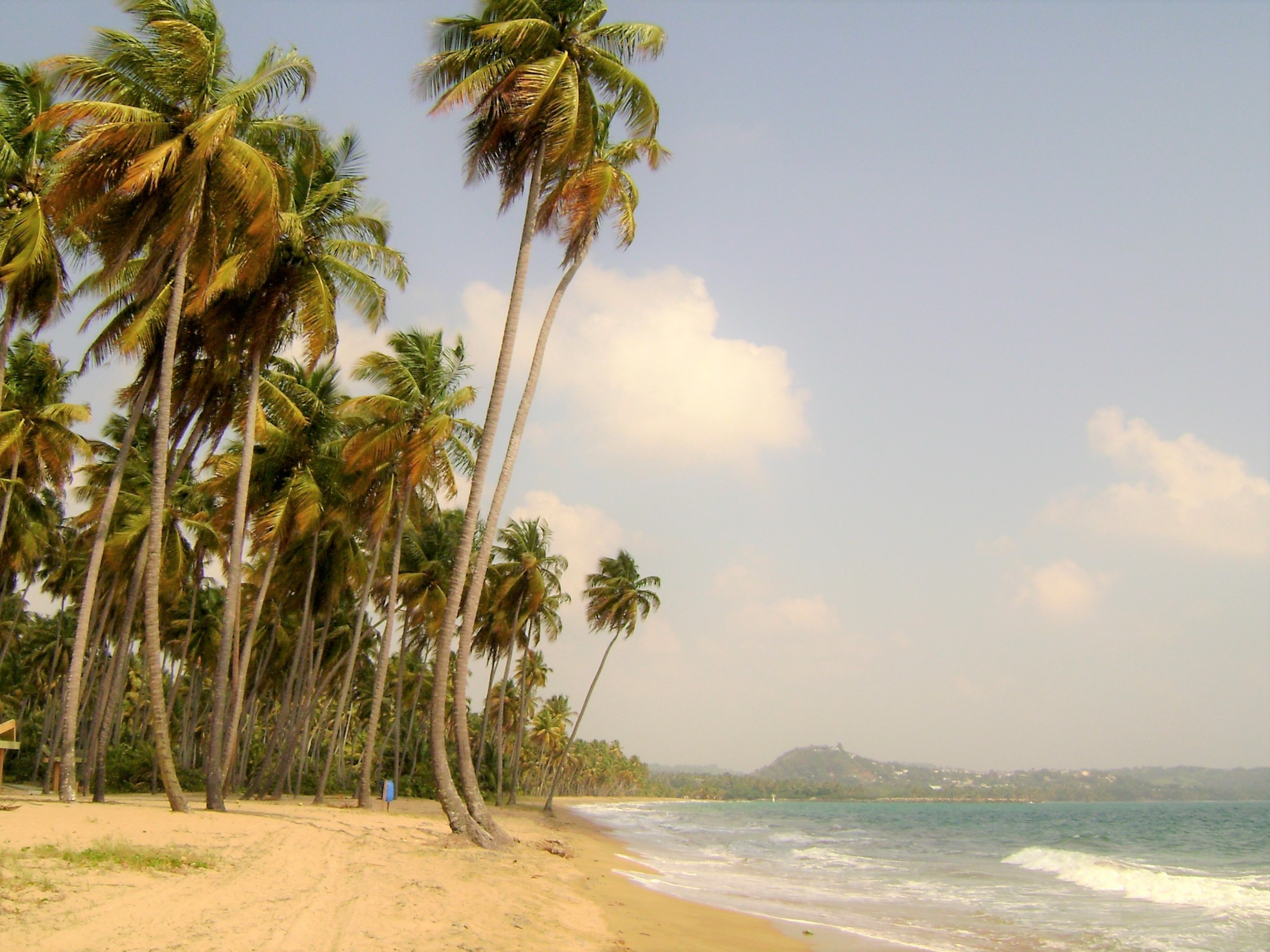 Lucia Beach in Yabucoa, Puerto Rico